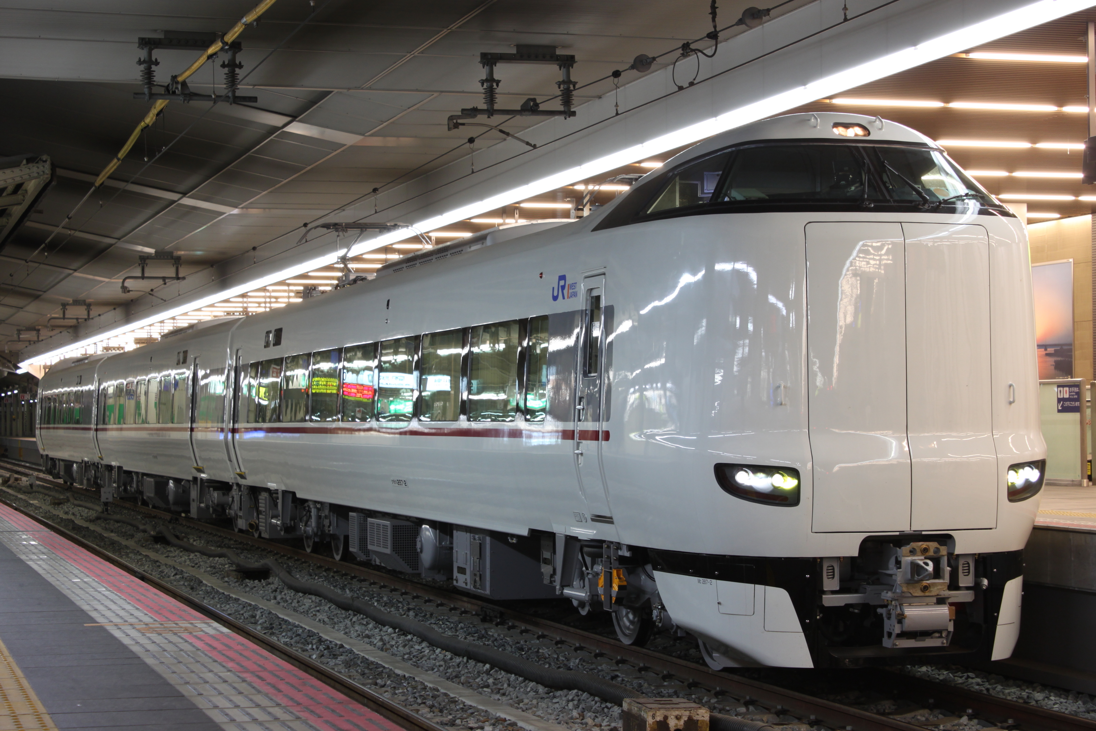 JR West 3-car 287 series EMU undergoing test running at Osaka Station